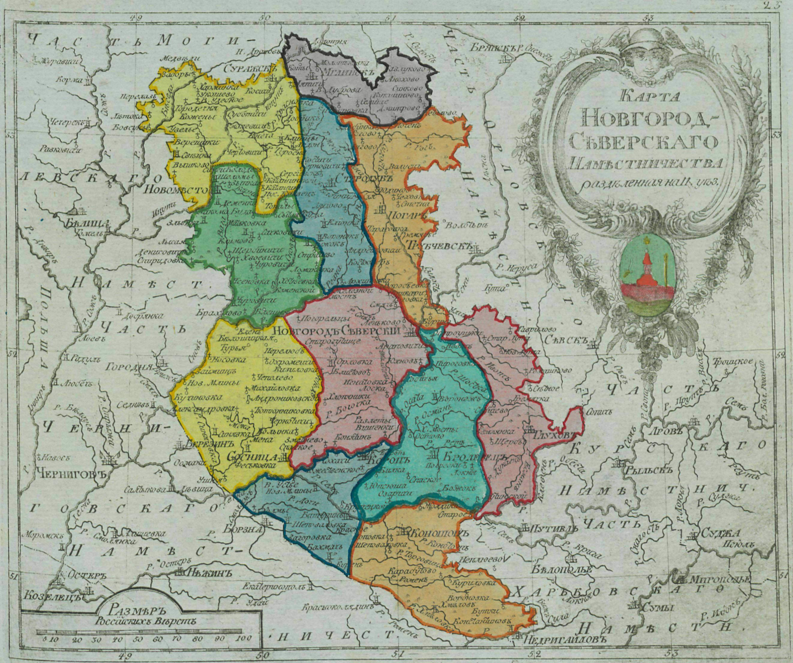 Small atlas of the Russian Empire (1792). Map of Novhorod-Siverskyi Namestnichestvo (map 22).